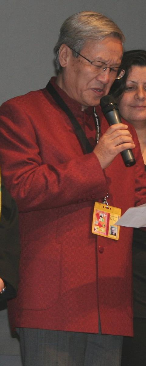 Xie Fei (director)